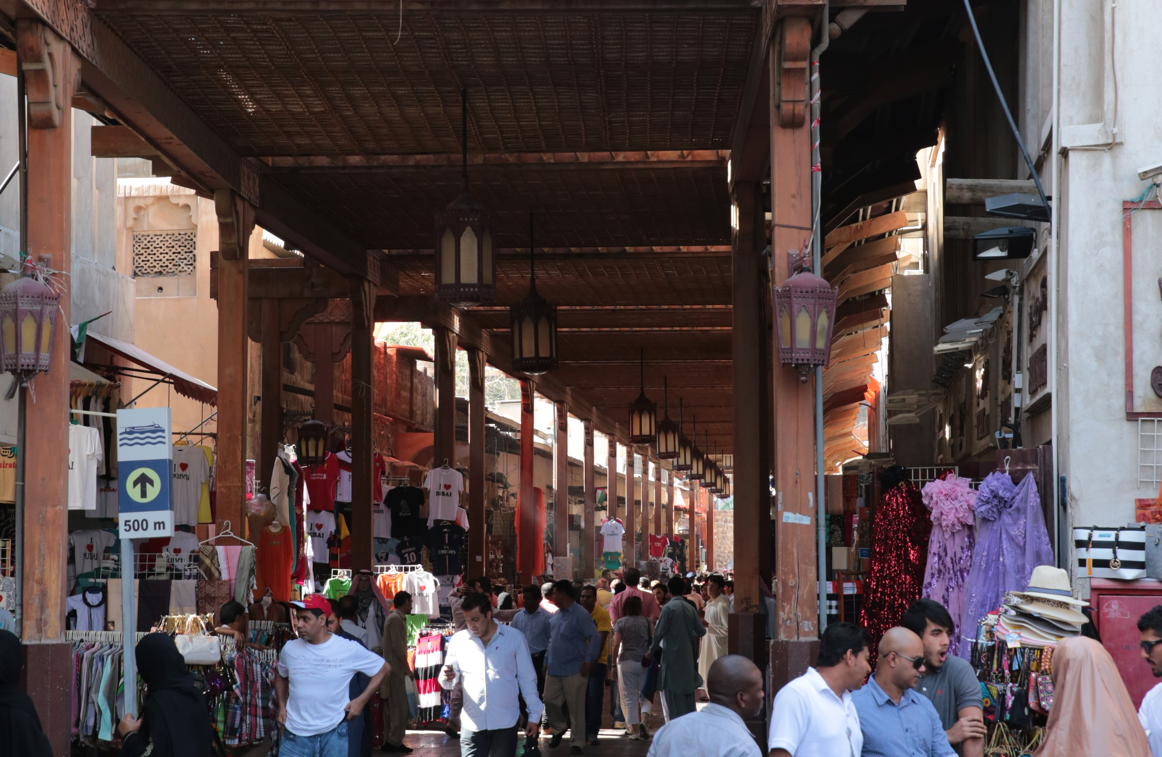 This picture shows one of the traditional sikkas of the Dubai Textile Souk, with tall wooden arches and traditional Arabic lamps within. The sikkas are filled with vendors selling various textile items.